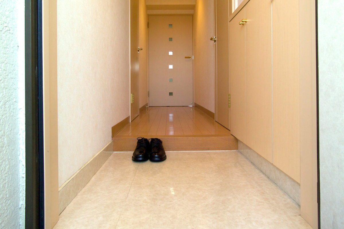 Genkan 玄関 of a house in Japan. Viewed from outdoors. At extreme left is the outside wall, then the doorjamb, and the interior wall. The genkan has floor tiles, and the shoes are on it. To the right of the genkan is the getabako; beyond the genkan is the raised interior floor of the hallway. The door with the square windows leads to the main residential area.